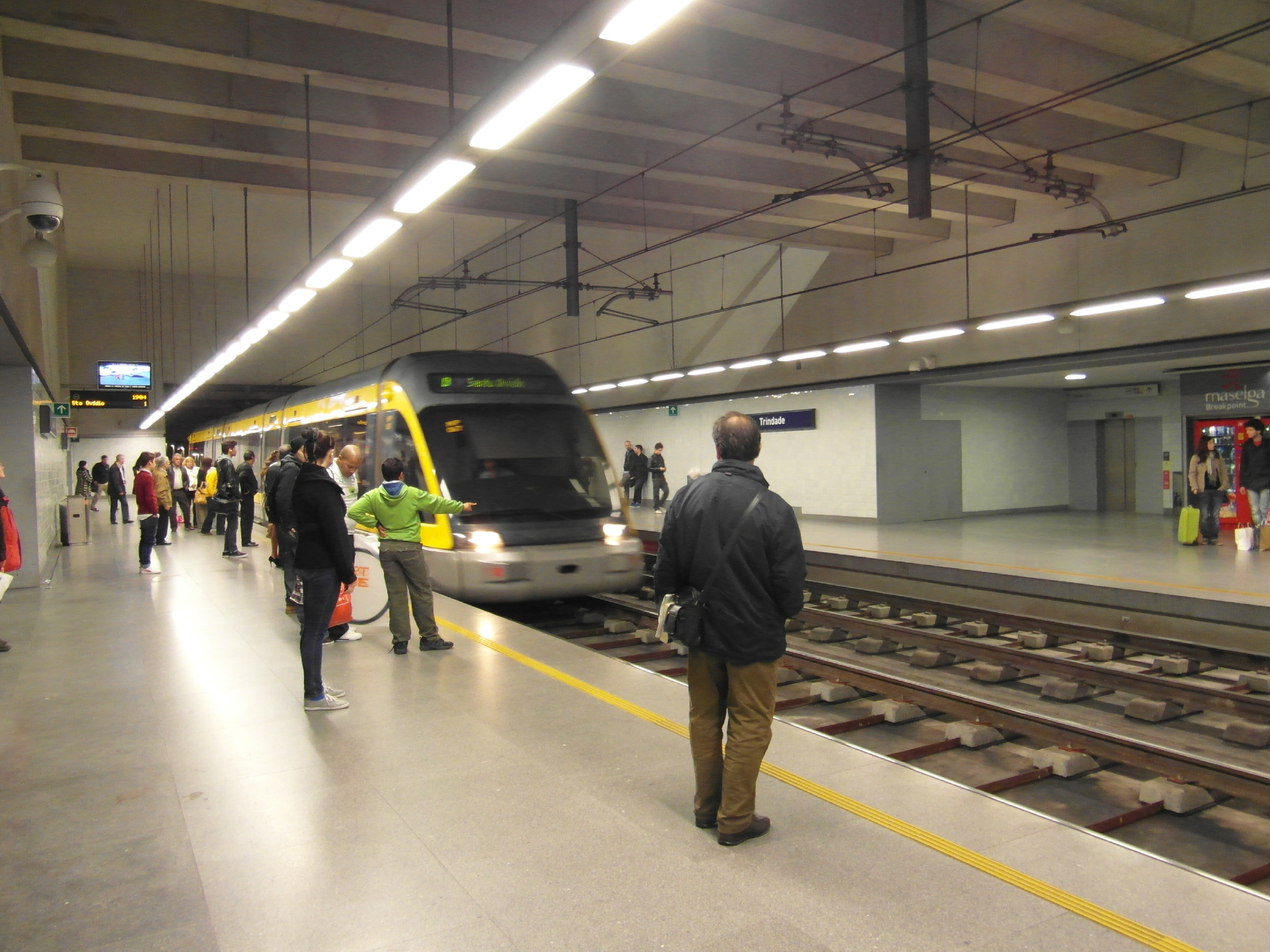 Stadtbahn Porto - Light rail Oporto